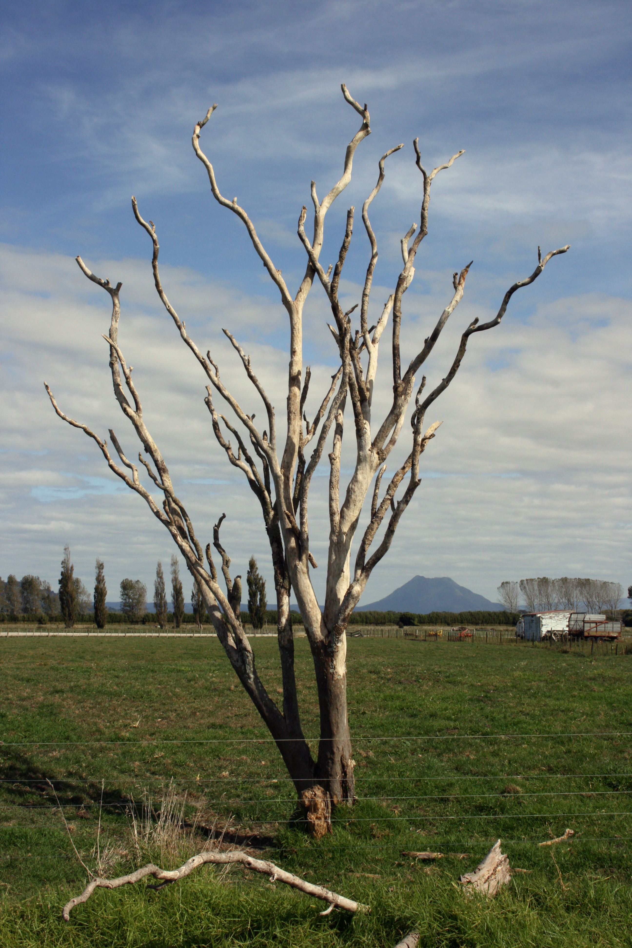 Cordyline australis, (Cabbage tree), tree killed by sudden decline, Thornton Rd, near Whakatane, New Zealand. Pūtauaki/Mt Edgecumbe in distance.